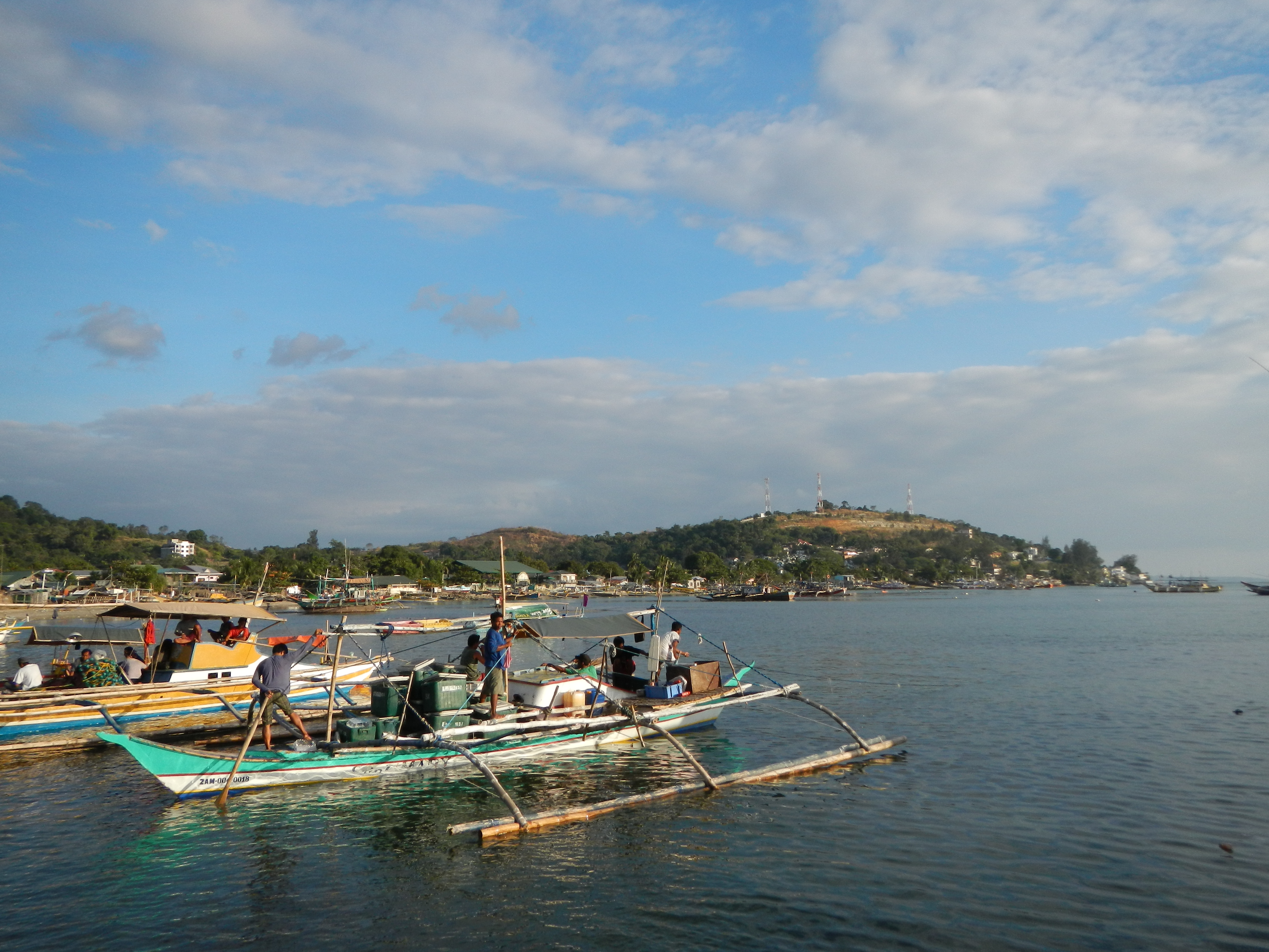 Subic, Zambales[1] Subic is a municipality in the province of Zambales, located along the northern coast of Subic Bay in the Philippines.[2]